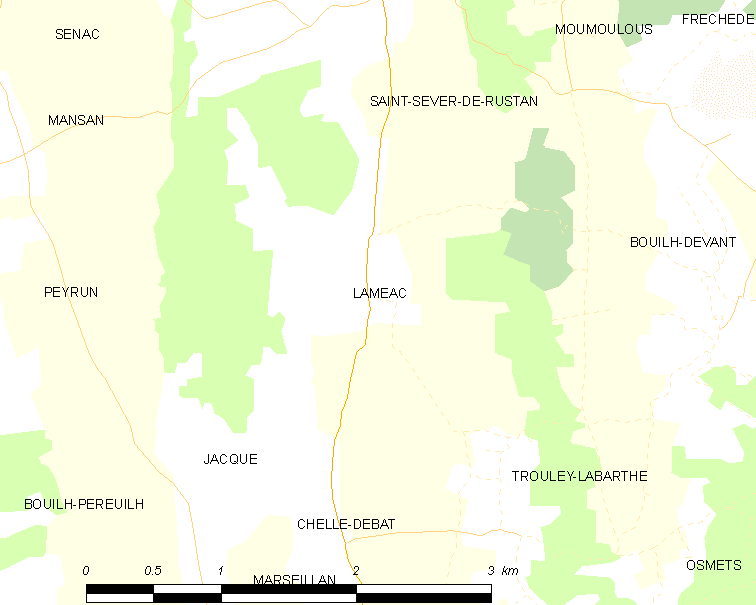 Map of French municipality